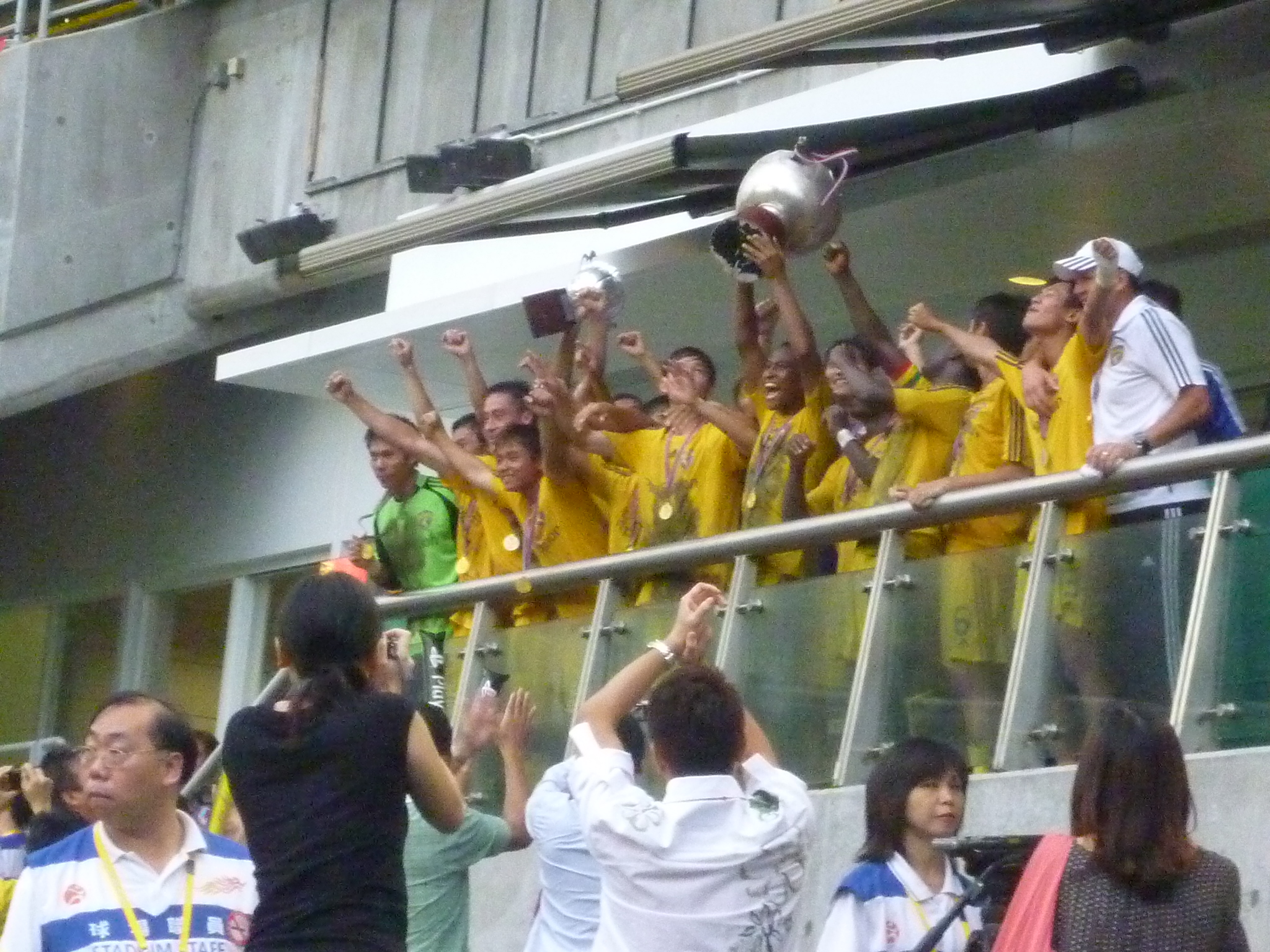 Pegasus is the champion of HKFA Cup 2010